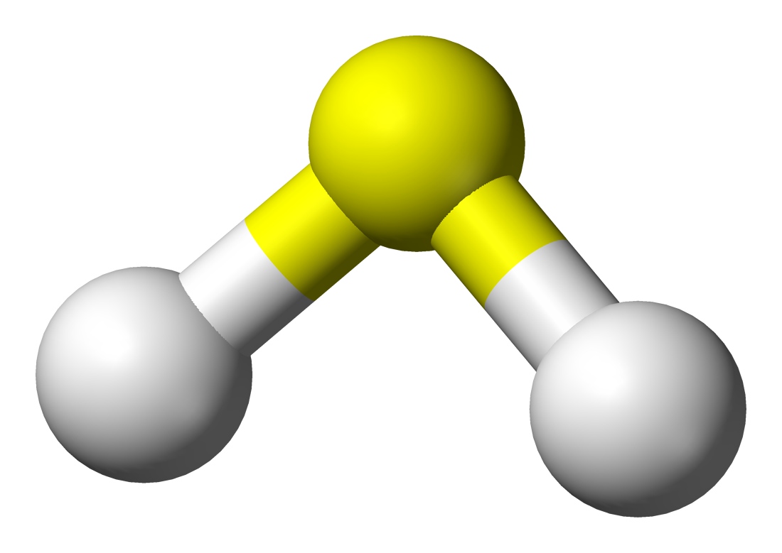 Ball-and-stick model of the hydrogen sulfide molecule, H2S